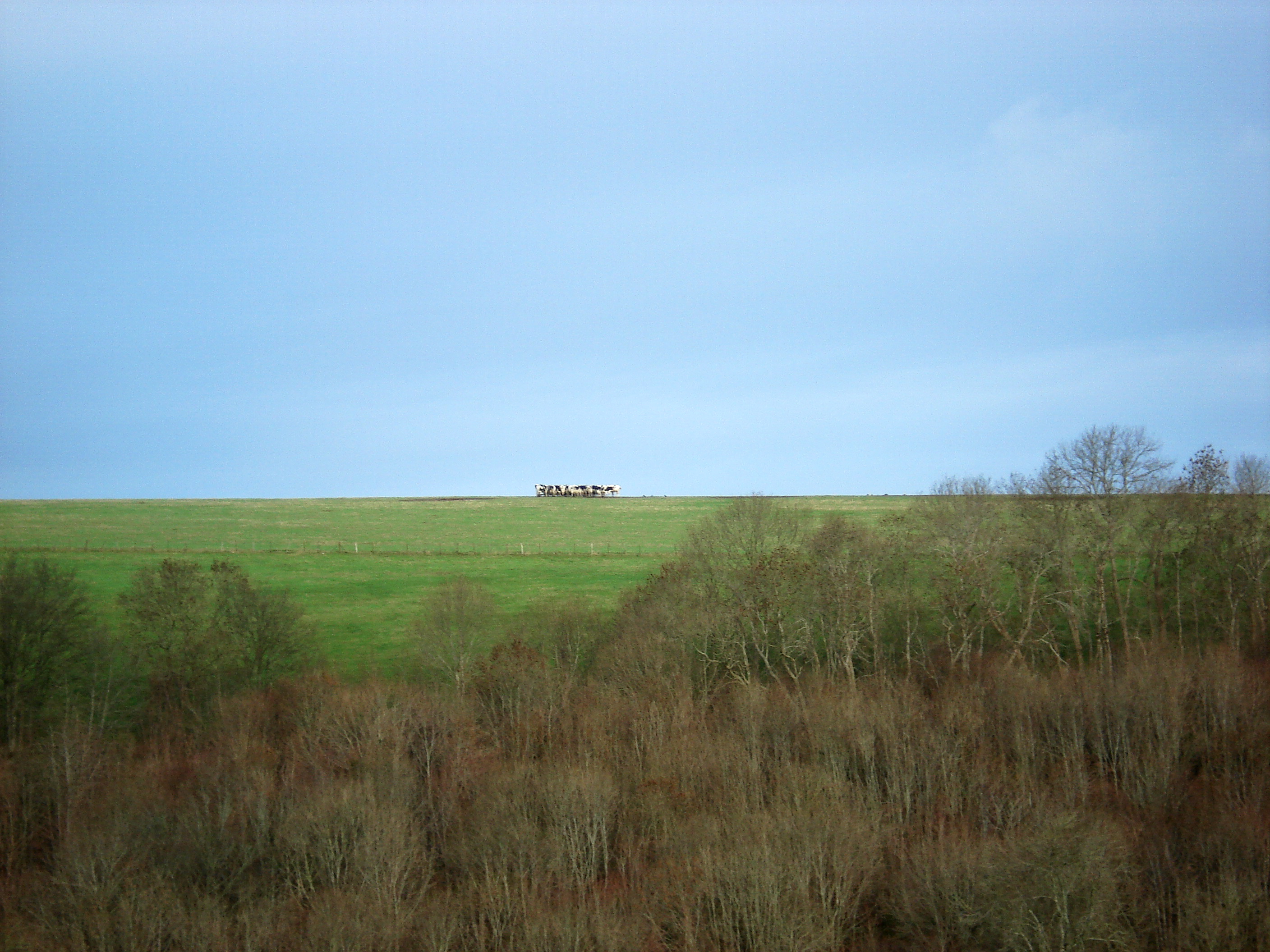 Cattle on Hambledon Hill, as seen from Hod Hill, Dorset, England.